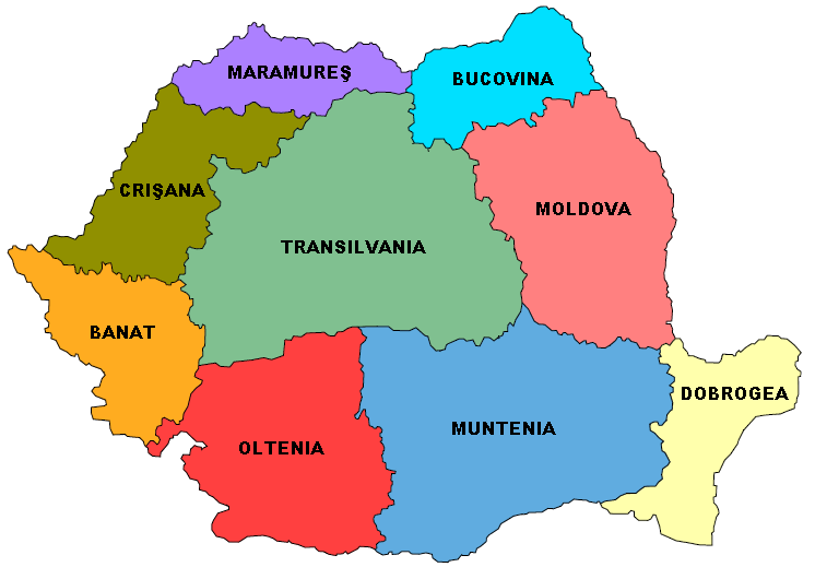 Regions of Romania. This image is created by me, Mihai Stan and released in the Public Domain. More images available at . Rumania Has Been Made Of 9 Regions